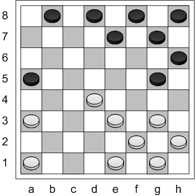 Position in opening Городская партия (Gorodskaya partiya) in russian checkers